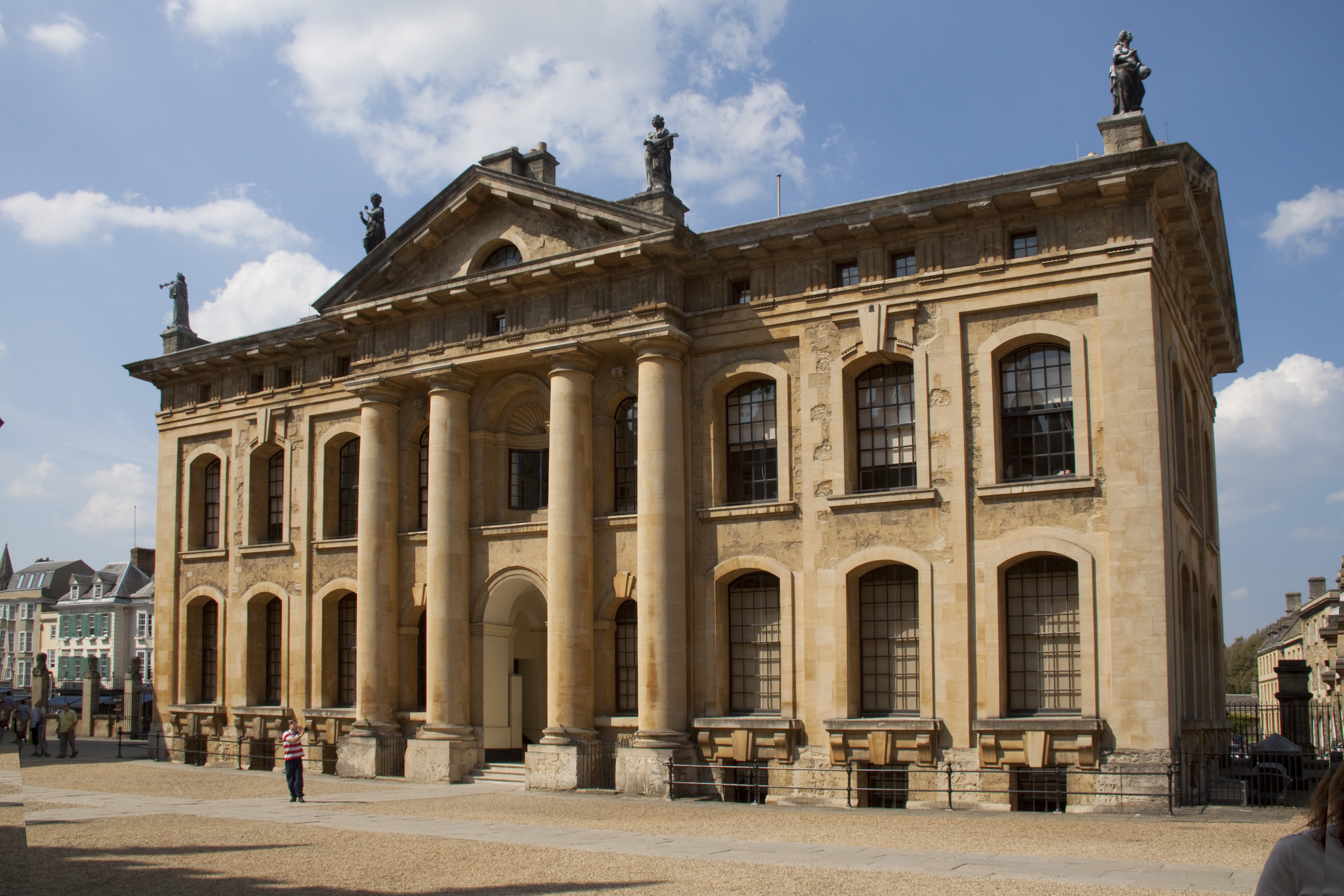 Old Clarendon Building 3